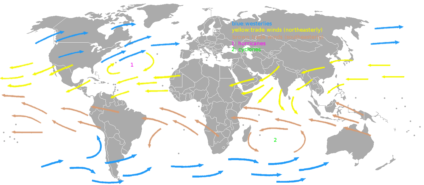 A map showing the prevaling winds on earth. The image was made based on an image in the book "Het handboek voor de zeiler" by H.C. Herreshoff.